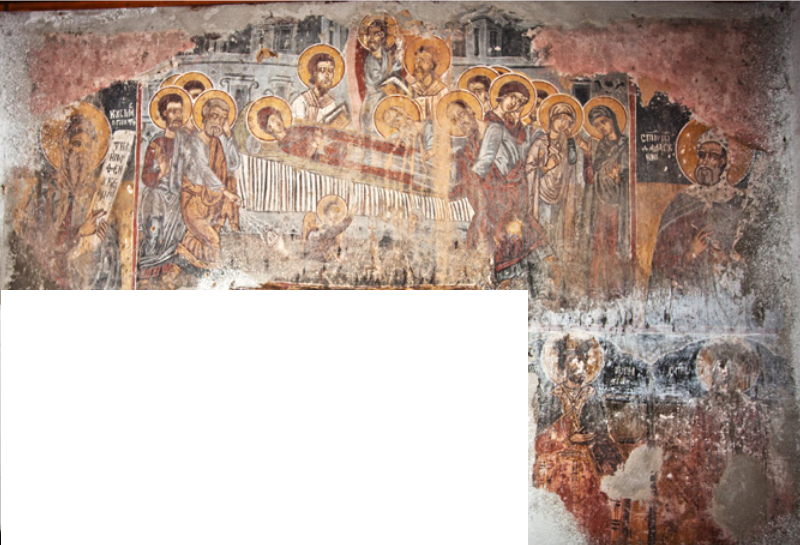 Saint George Church in Martolci, Dormition of Mary Fresco